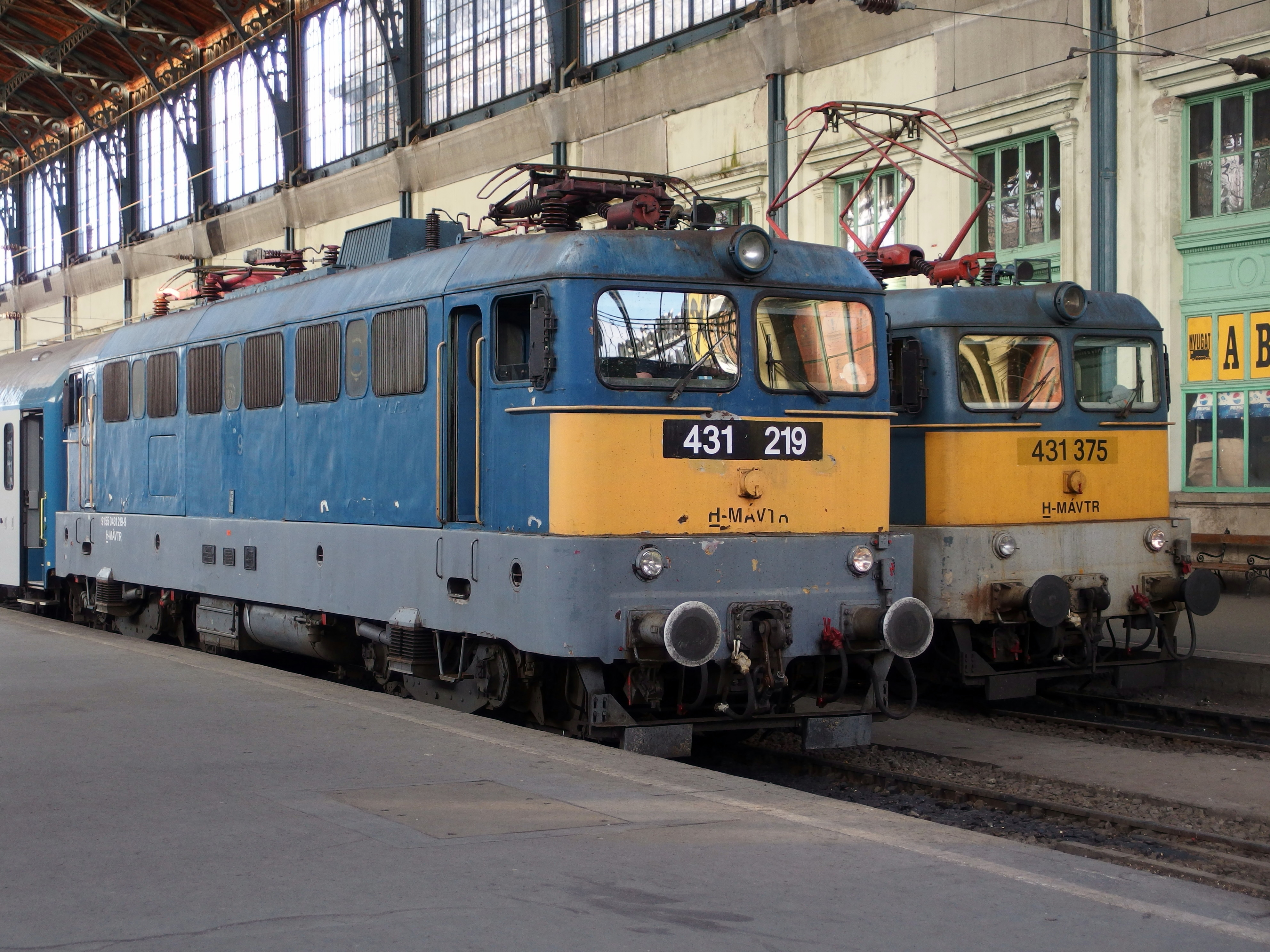 2013-06-12 in Budapest.